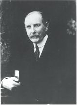 Arthur E. Kennelly